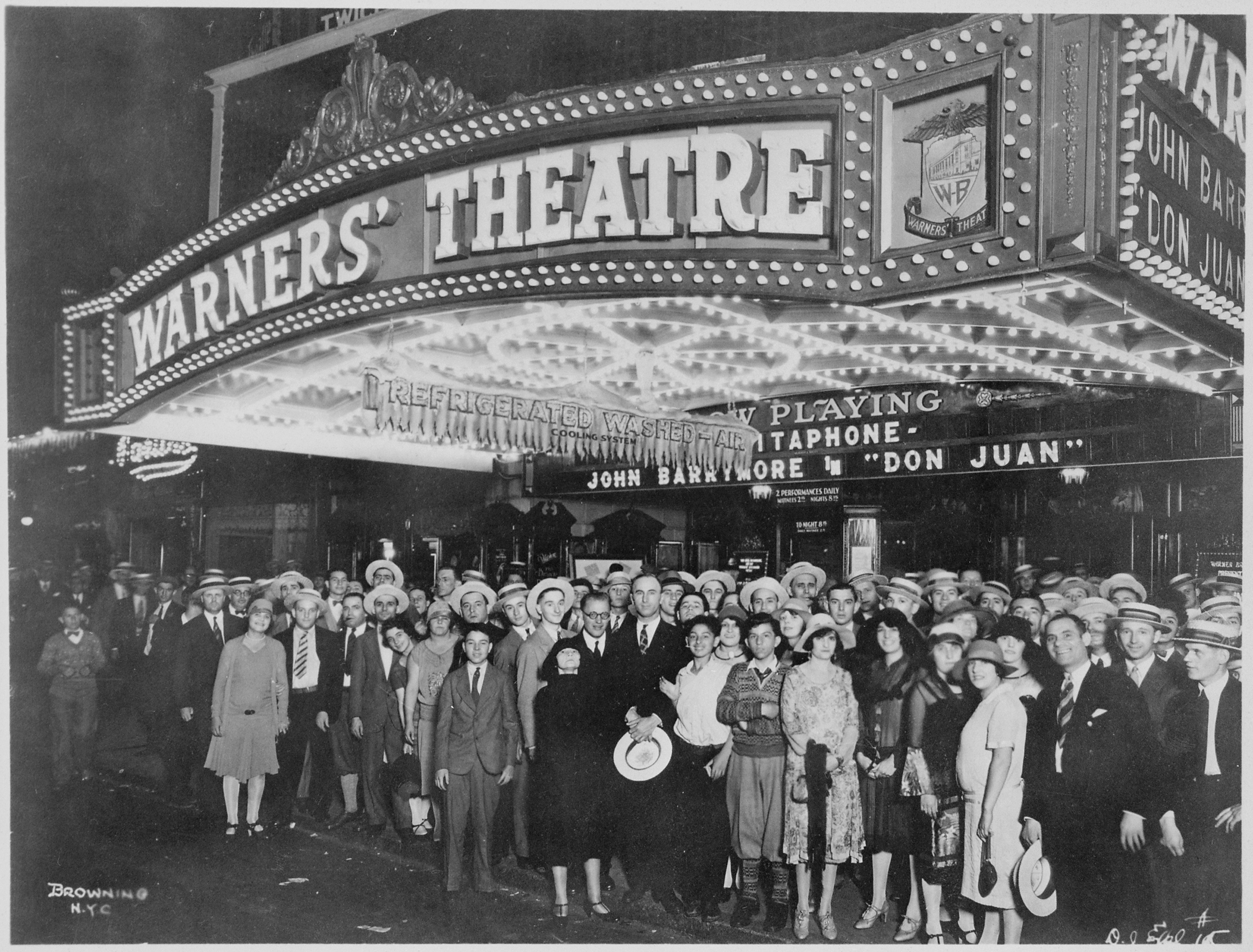 General notes: New York City